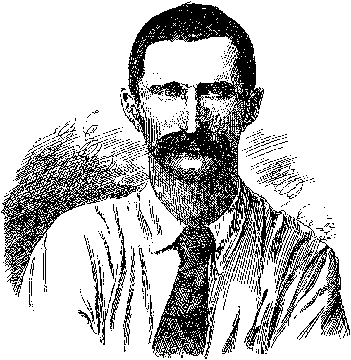 Newspaper drawing of Isaac Mills in 1894